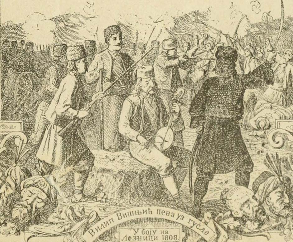 Filip Višnjić at the Battle of Loznica (1808)